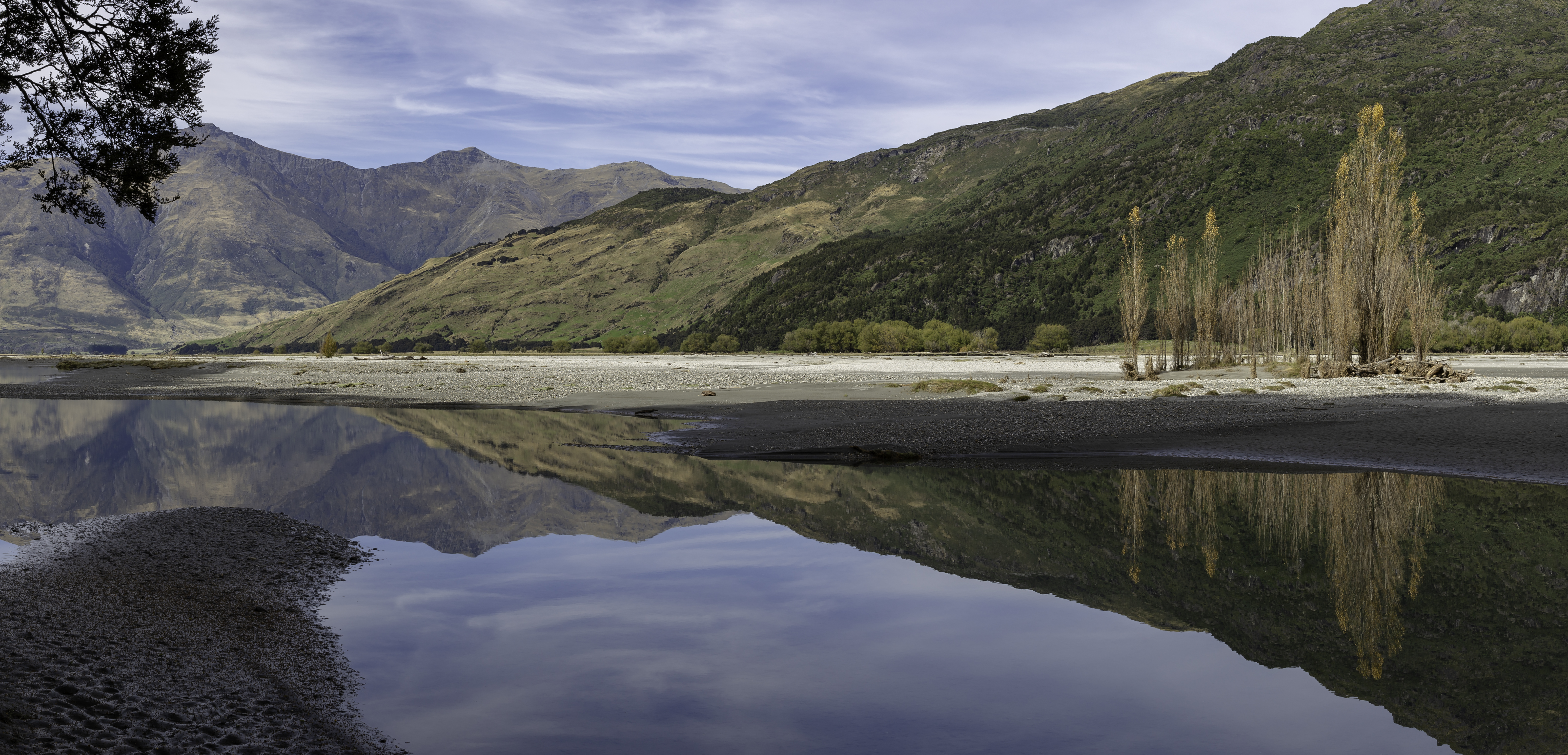 Wilkin River close to its confluence with Makarora River. Otago, South Island, New Zealand.